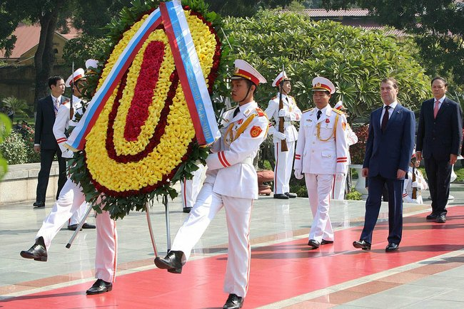 Laying a wreath at the Ho Chi Minh Mausoleum.